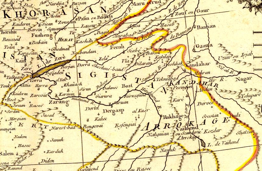 Carte de l'Empire de Perse. Projettee et assujettie aux observations astron. par Mr. Bonne, Hydrographe du Roi. A Paris, Chez Lattre Graveur, ordinaire de Monseigr. le Dauphin, rue S. Jacques a la Ville de Bordeaux. Avec privilege du Roy. 1787. Arrivet inv. & sculp.